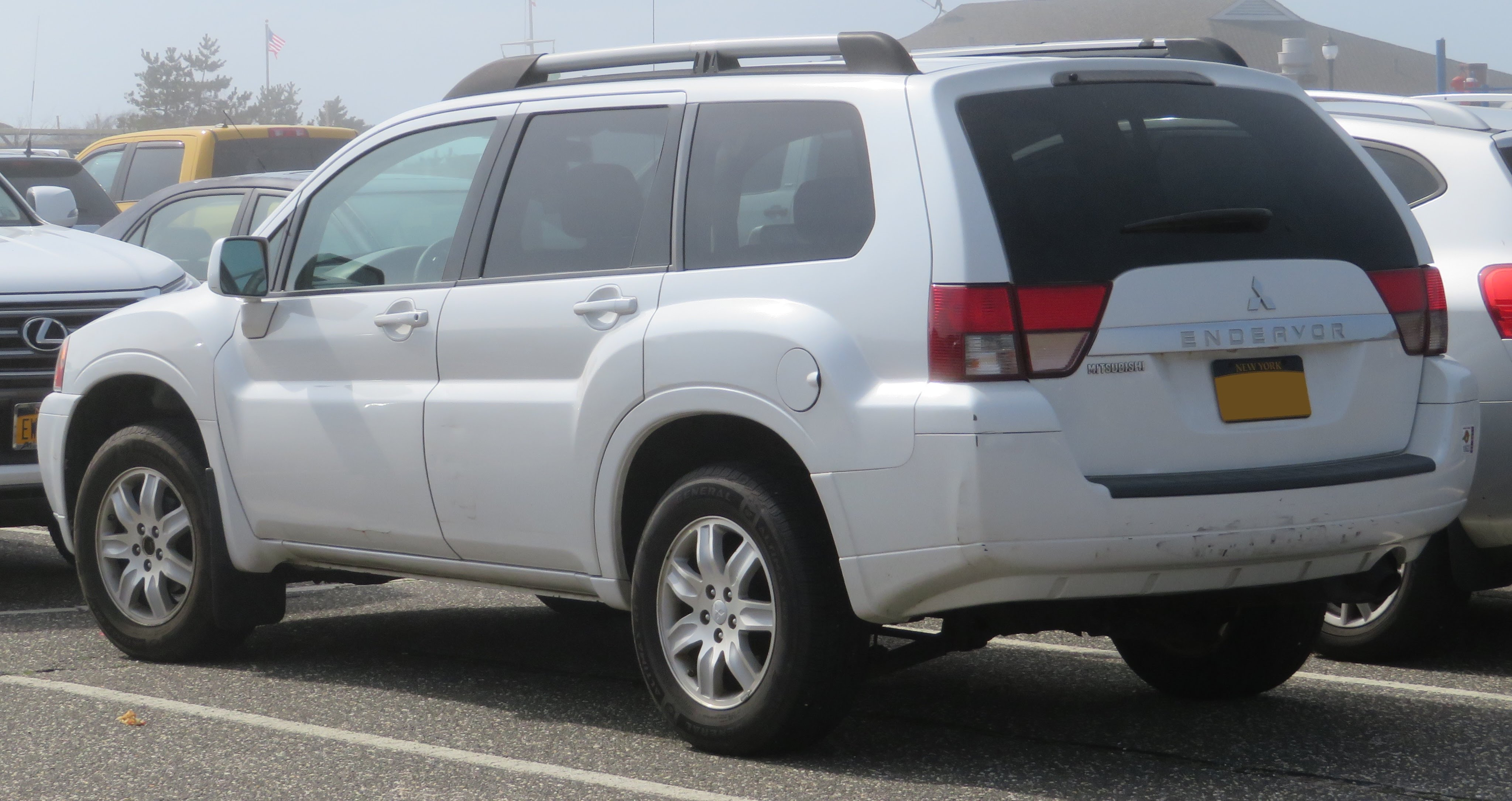 In Long Island, New York